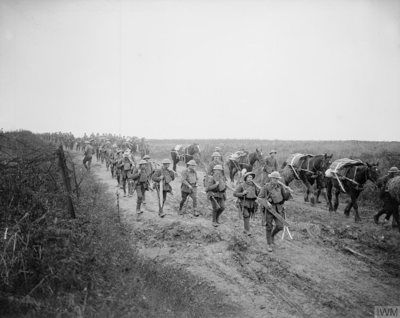 The Battle of Cambrai, November-december 1917 Men of the 16th Battalion, Royal Irish Rifles (Pioneers of the 36th Ulster Division) moving forward along the Ribecourt road, 20 November 1917.